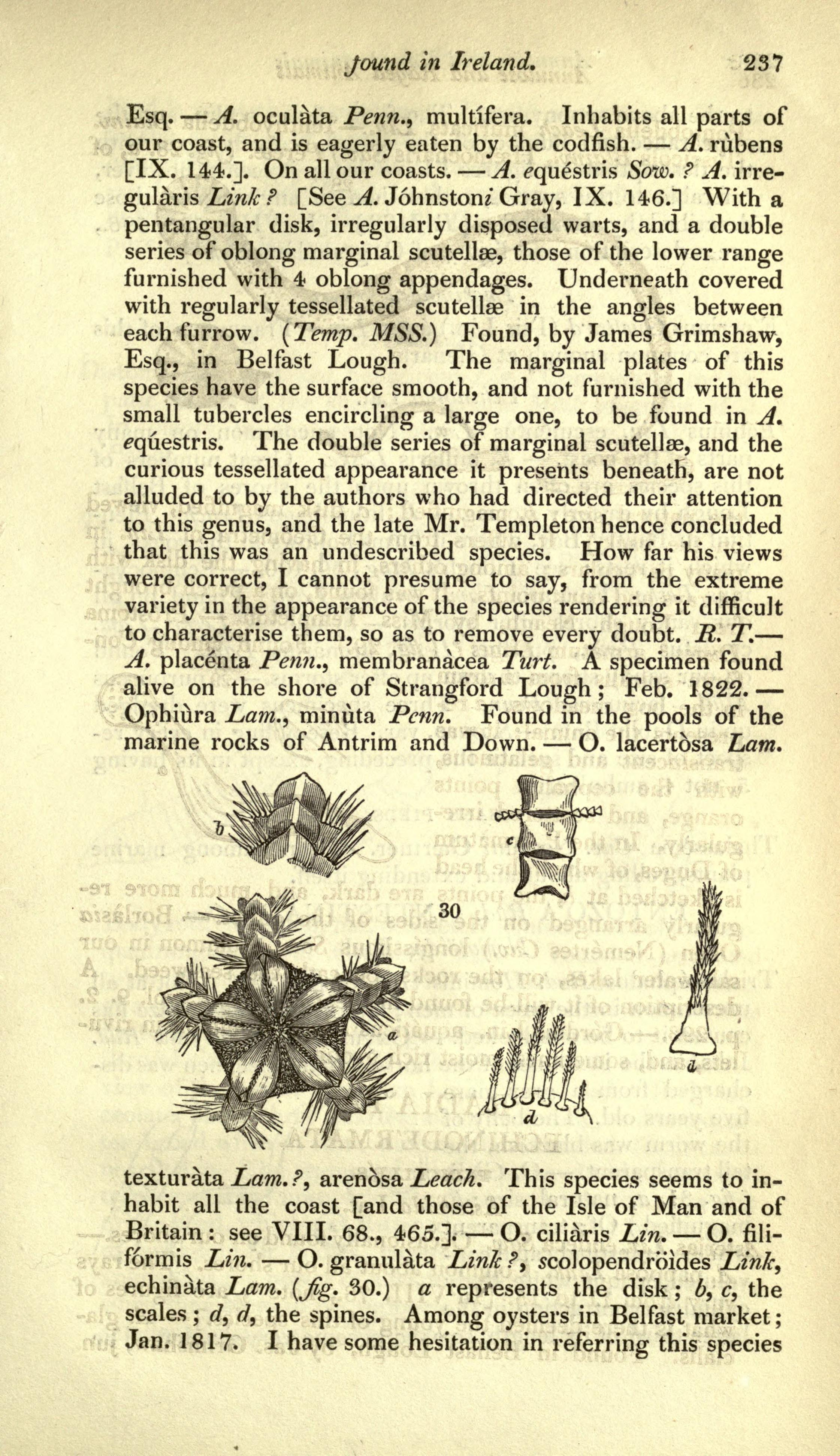 As file